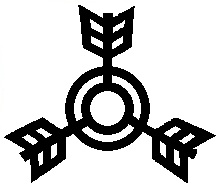 Miyakonojo MIyazaki chapter